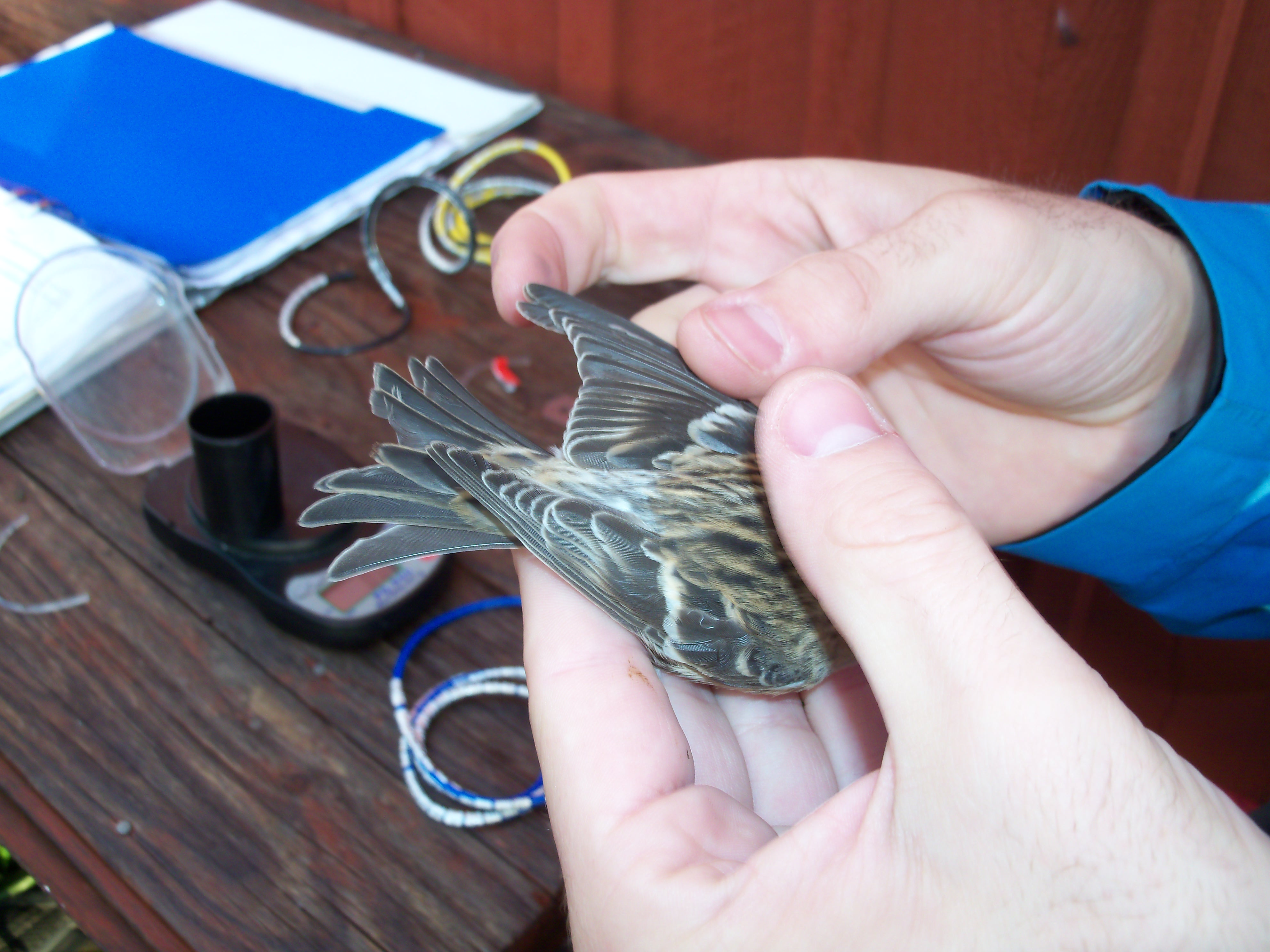 A Common Redpoll (Carduelis flammea) or (probably) a Lesser Redpoll (Carduelis cabaret) ringed at Landsort Lighthouse on the south cape of the island Öja (Landsort), south of Nynäshamn in Södermanland in Stockholm County in Sweden. Landsort Bird Observatory is responsible for the ringing.